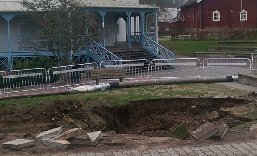 A sinkhole at Kårallen, Linköping University, Sweden